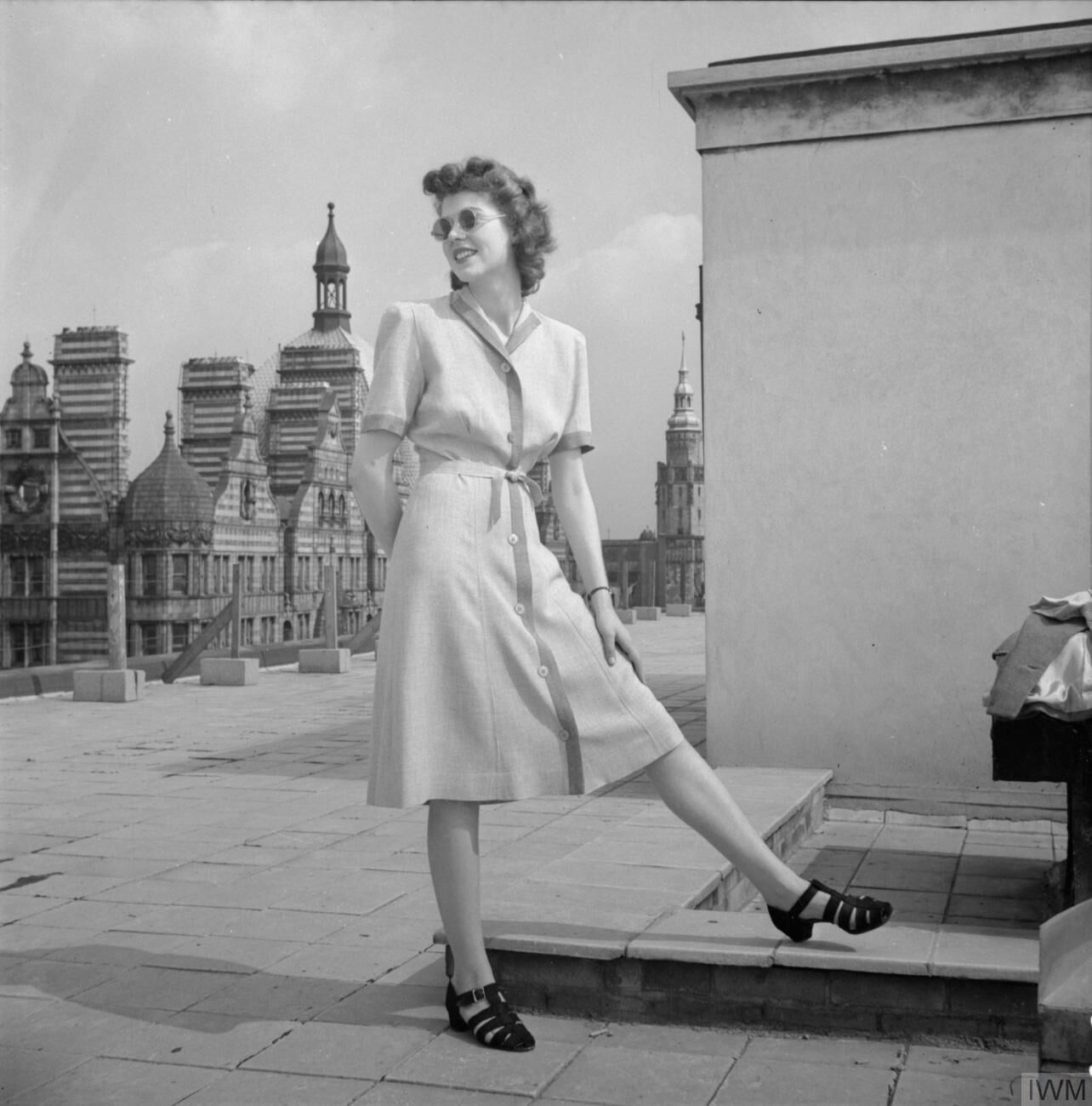 Utility Clothes- Fashion Restrictions in Wartime Britain, 1943 A model poses on a Bloomsbury rooftop to show off her two-tone Atrima dress, costing 7 coupons.